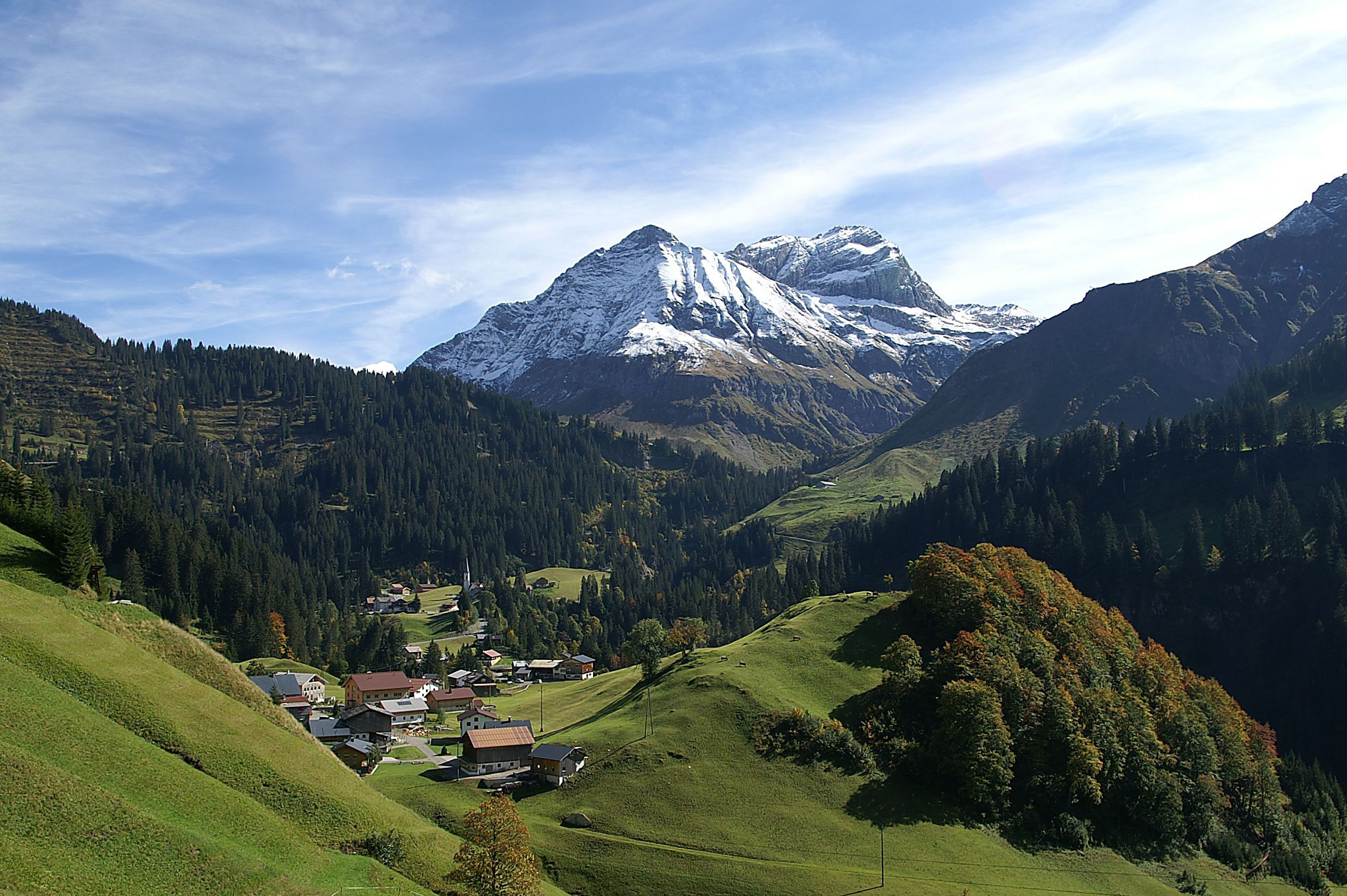 View over the topsoil to Schröcken in Bregenzerwald in the background, left the Juppenspitze 2412m, 2542m right Mohnenfluh.